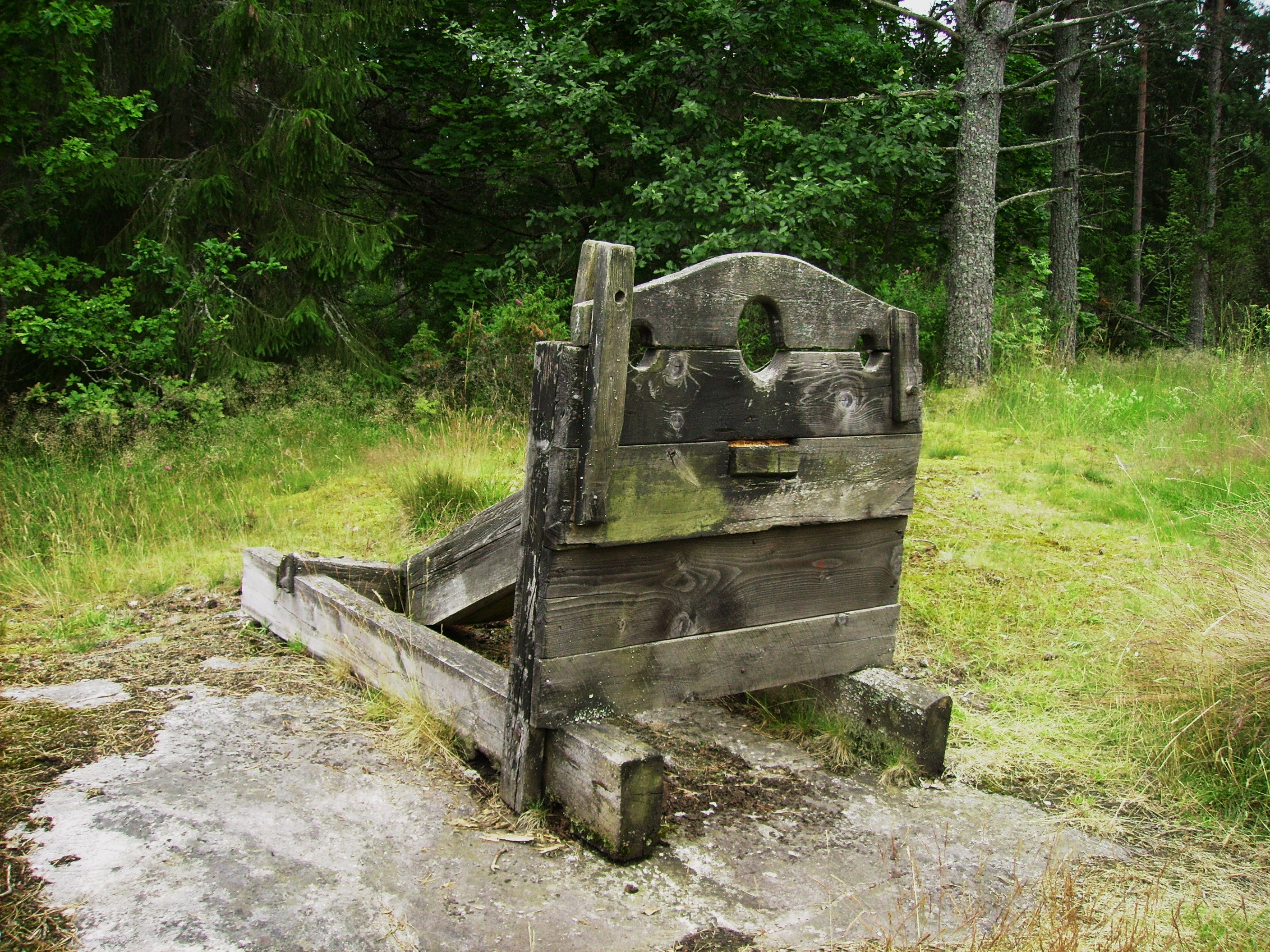 Picture from Skottvångs gruva in Södermanland